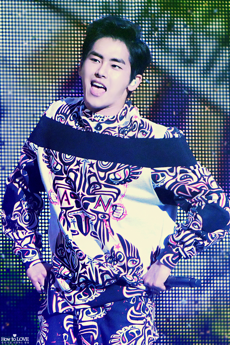 Infinite member Hoya performing at the Infinite H showcase on January 26, 2015.